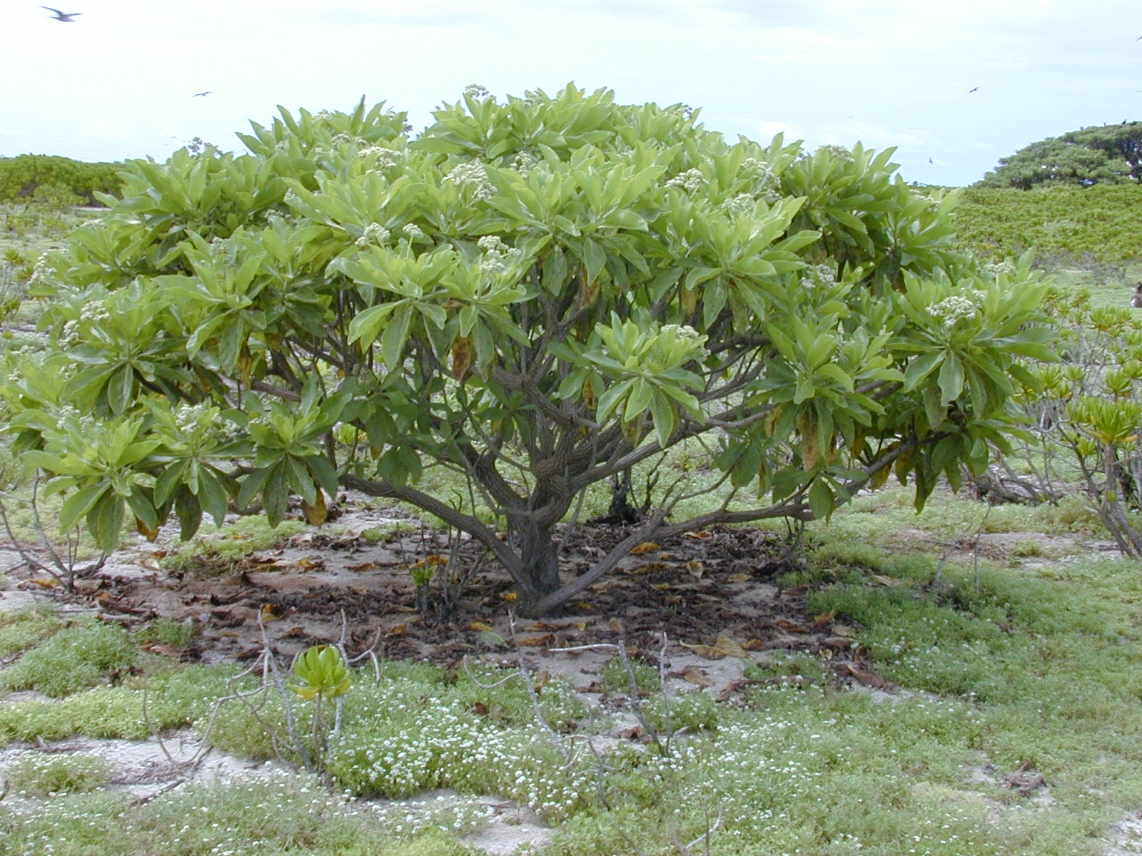 Tournefortia argentea (habit). Location: Kure Atoll, Near coast